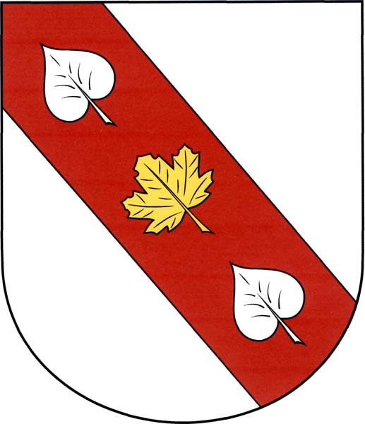 Coat of amrs of Dobřejovice , District Prague East, Czech Republic